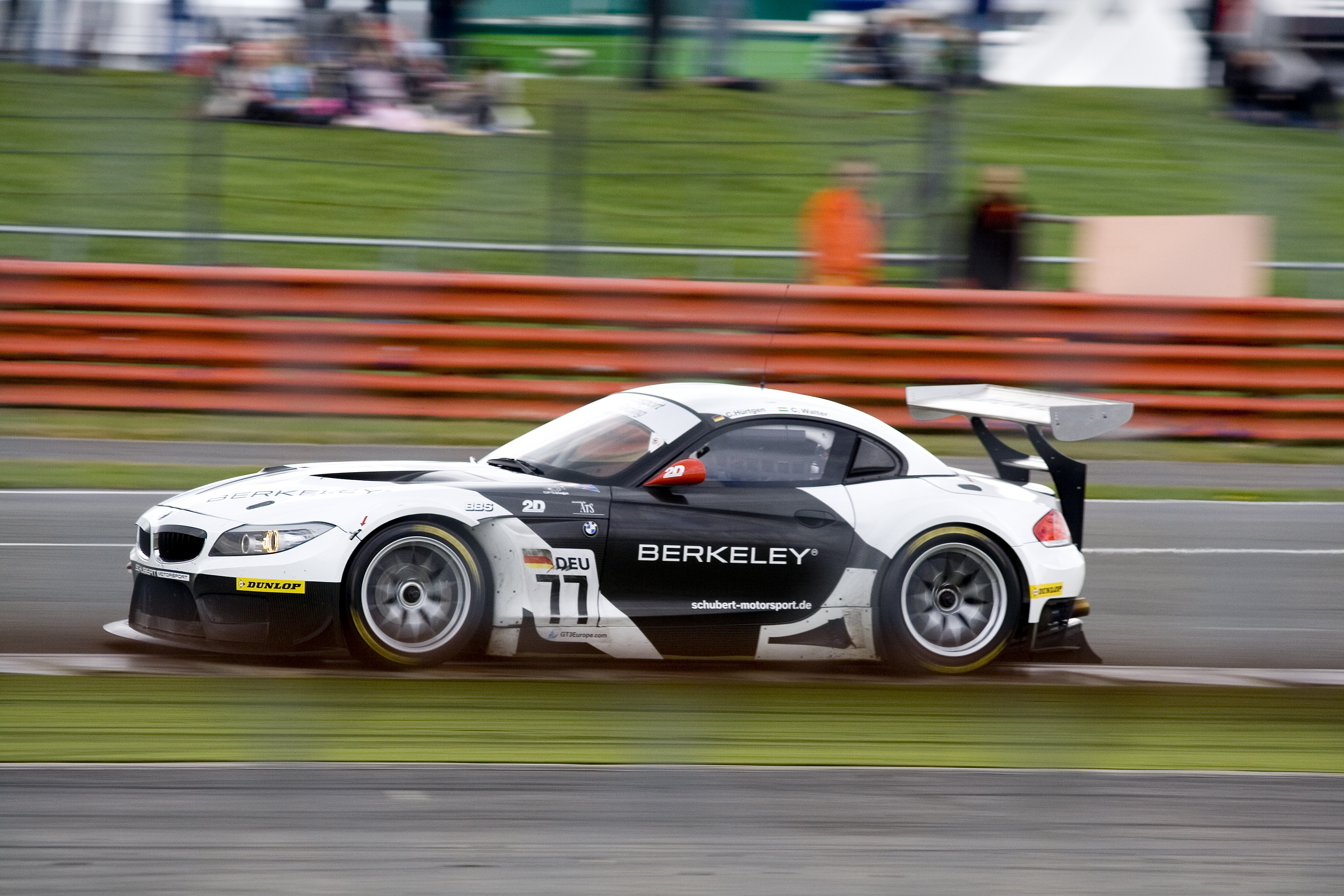 FIA GT3 Race 1 - BMW Z4 (Need For Speed by Schubert Motorsport)